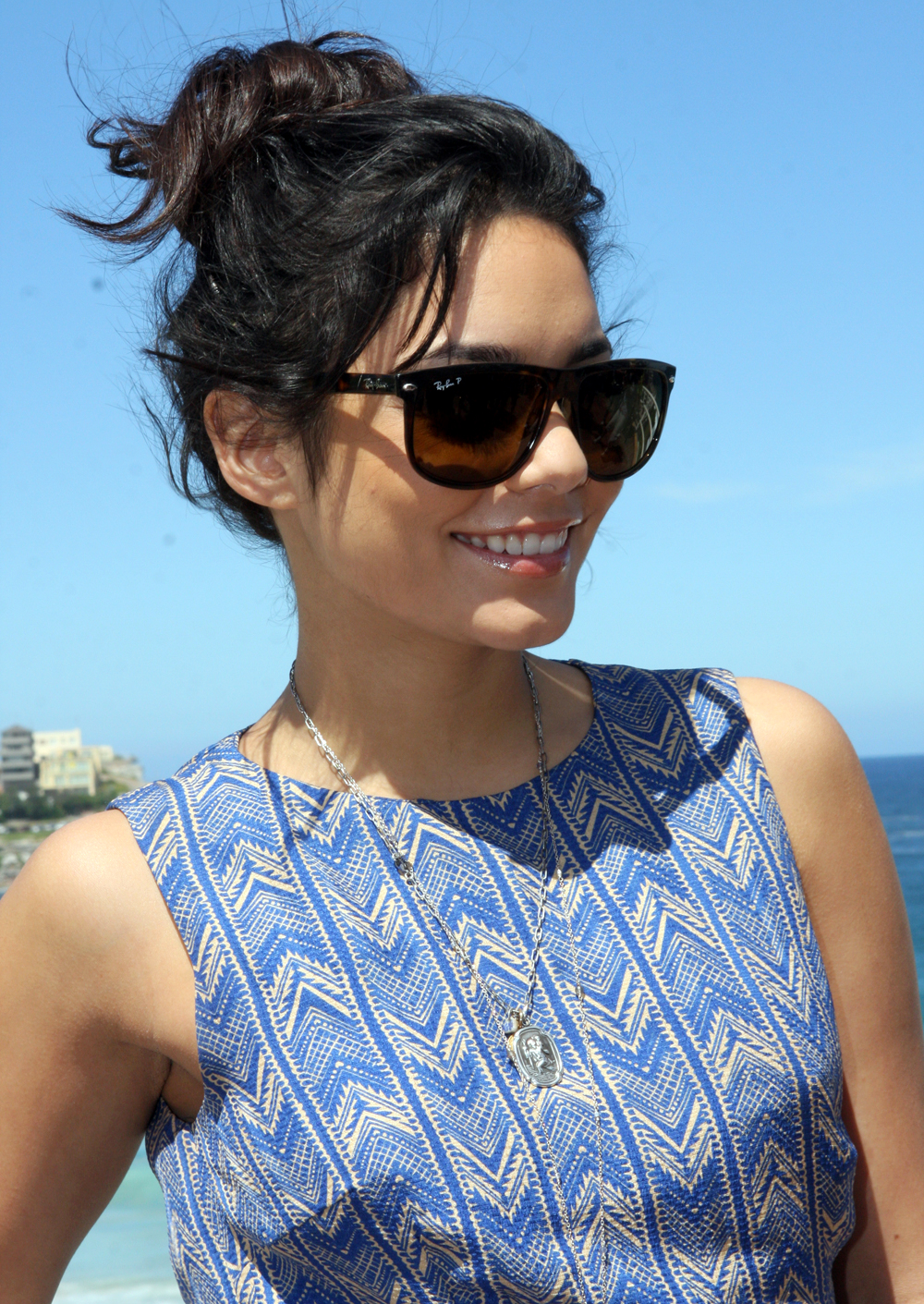 Vanessa Hudgens Adventure to Bondi Beach 2012.